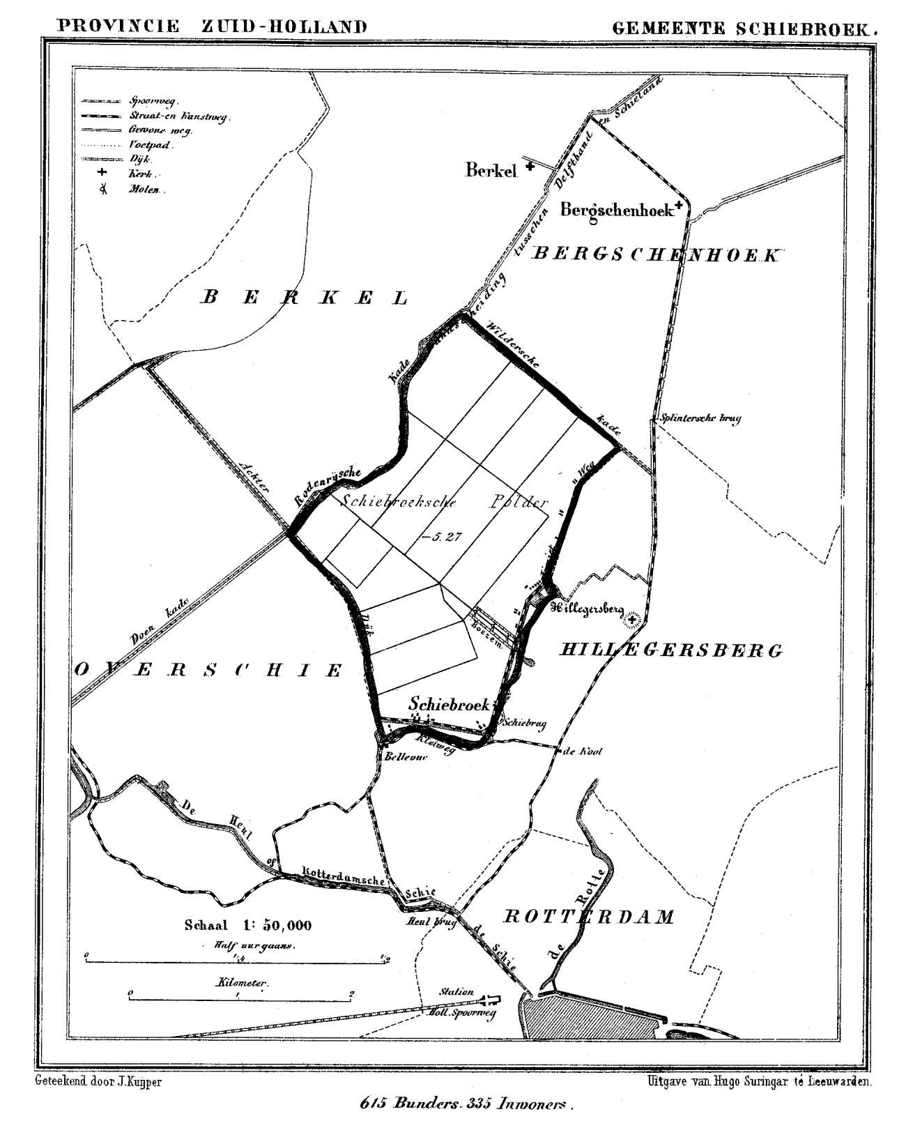 Historic map of Schiebroek (now part of municipality Rotterdam), South Holland, the Netherlands